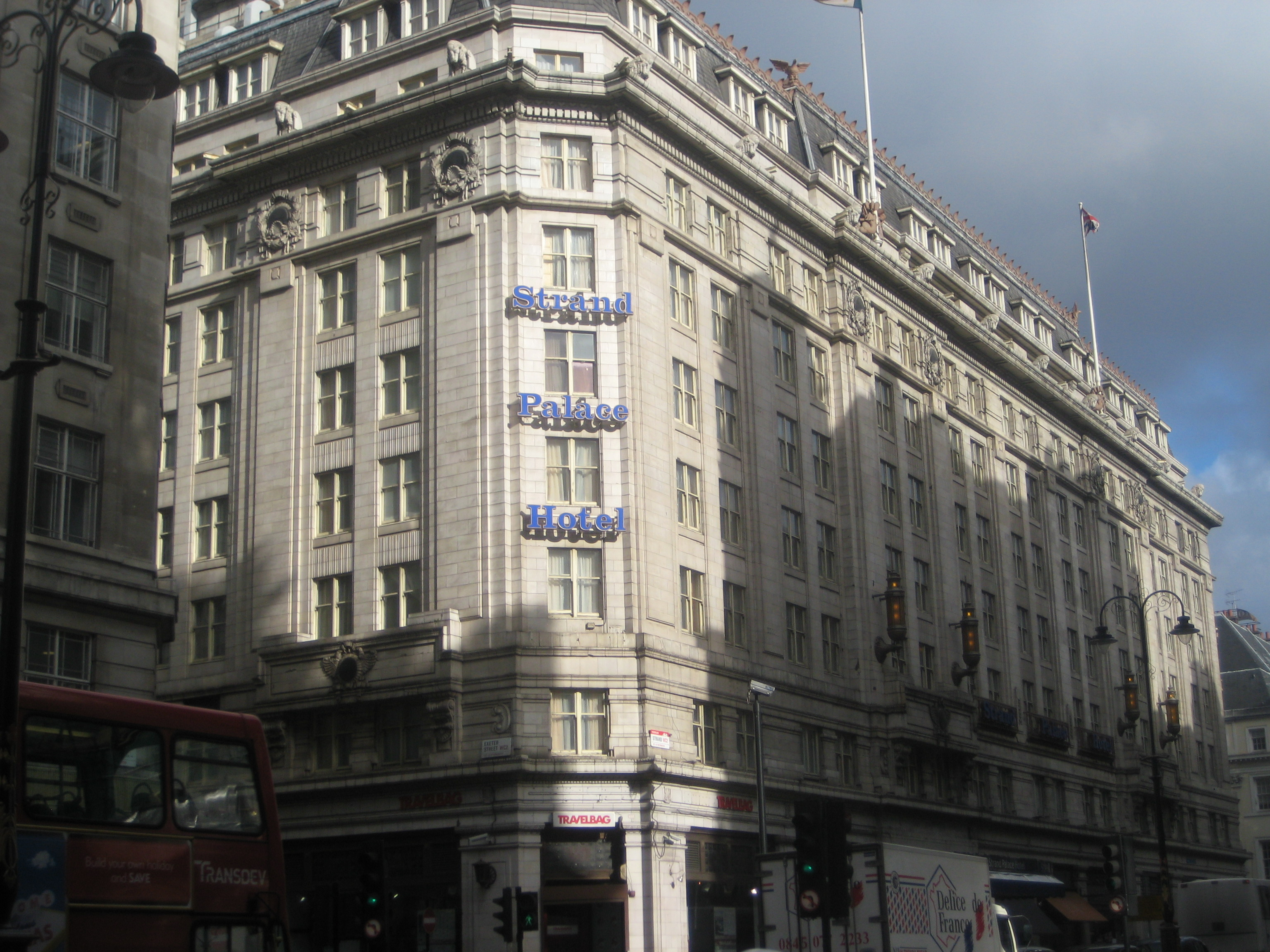 London Theatre Breaks Strand Palace Hotel